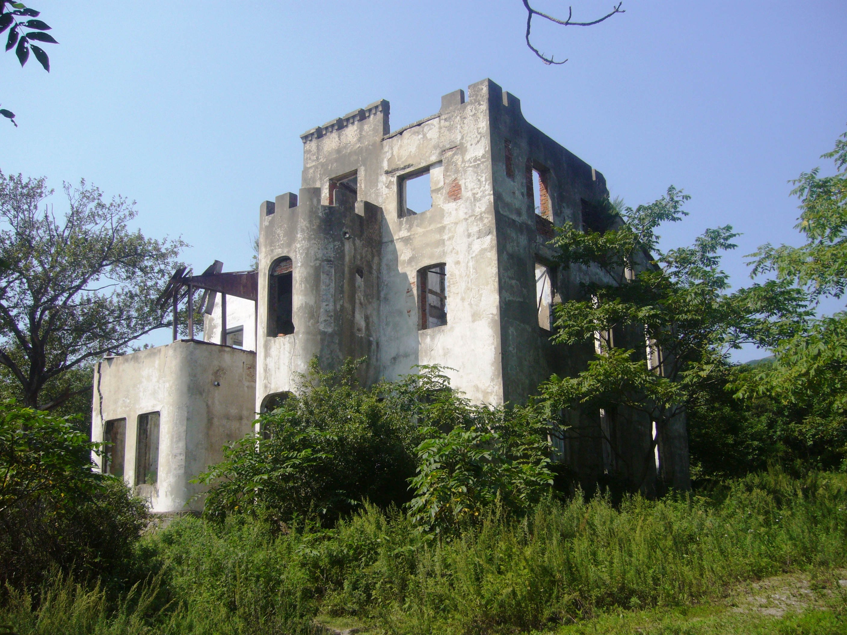 The ruins of Jankowski House built by Russian nobleman of Polish origin Jan Jankowski (1886—1919) in 1918–1919 in what is now Vitiaz village in Primorsky Krai